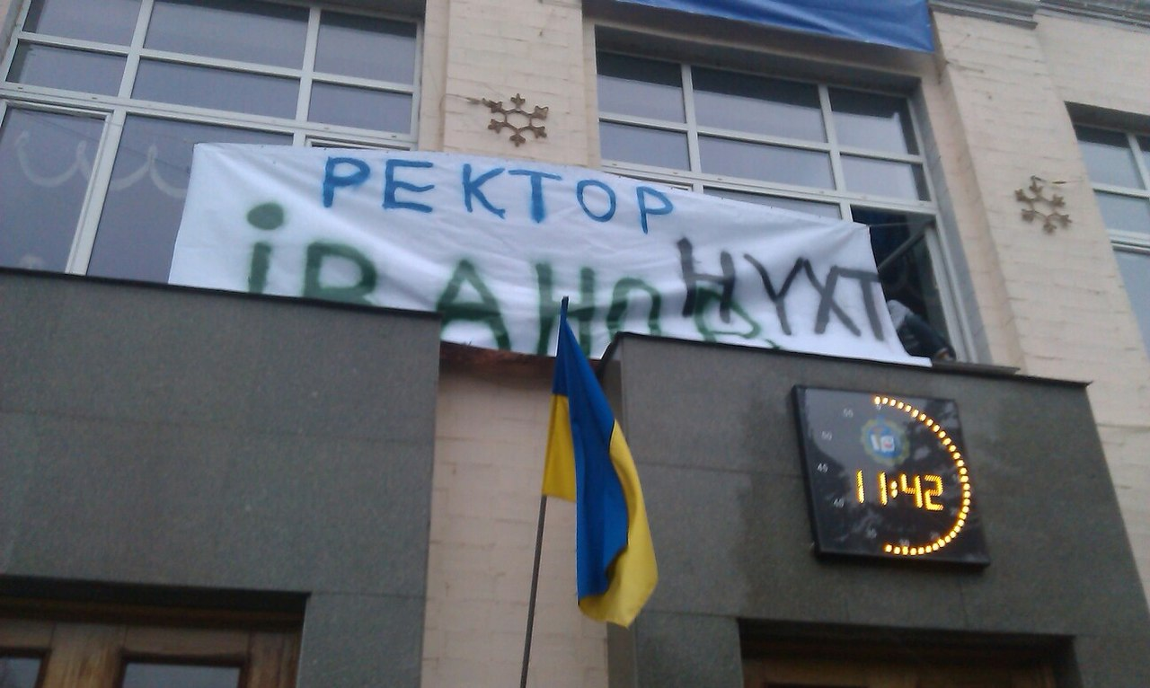 Banner on NUFTs (Kyiv) main building during protest against firing of headmaster Ivanov